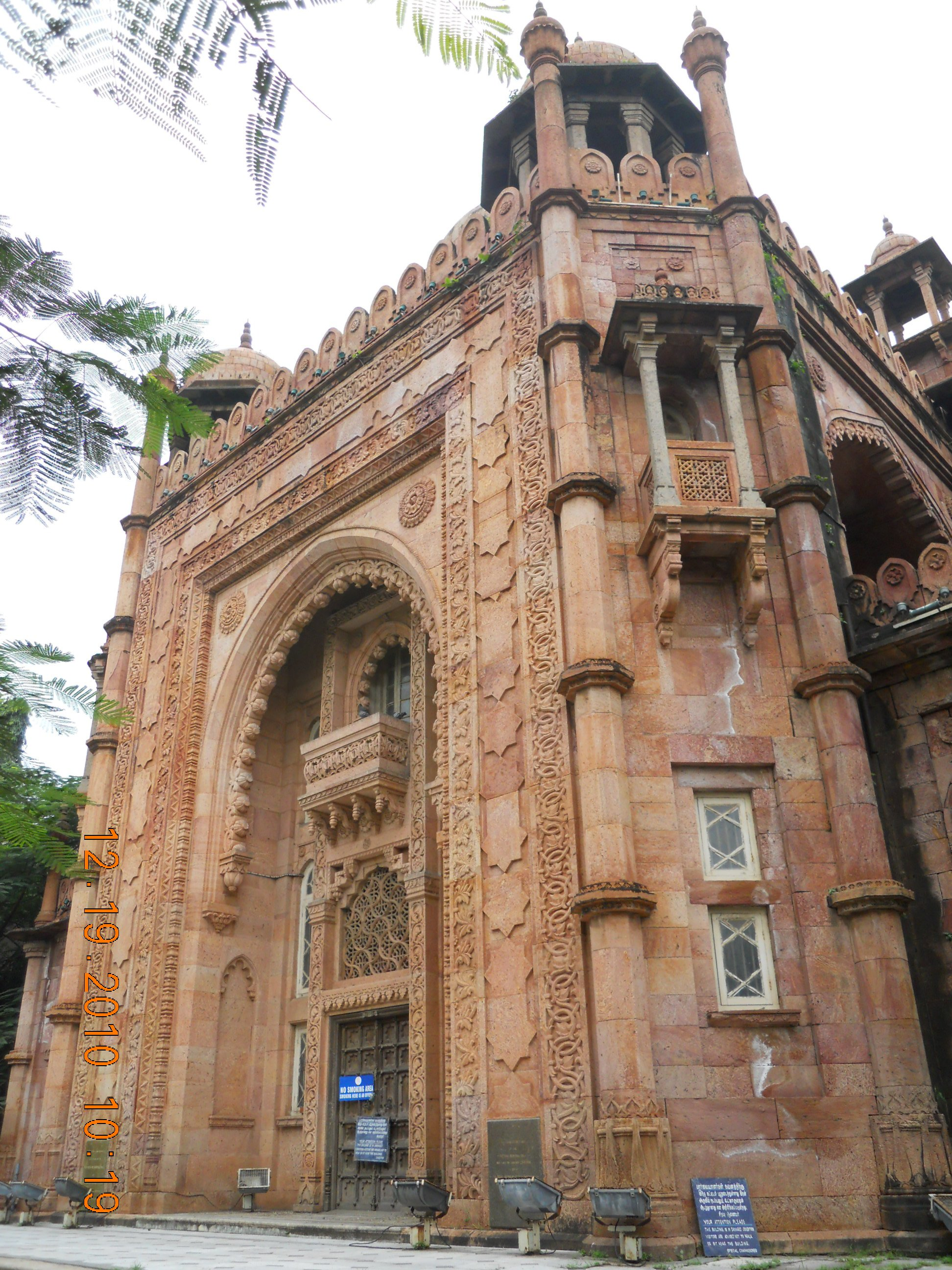 Egmore Museum building — in Chennai. Indo-Saracenic Revival architecture. Egmore_Museum